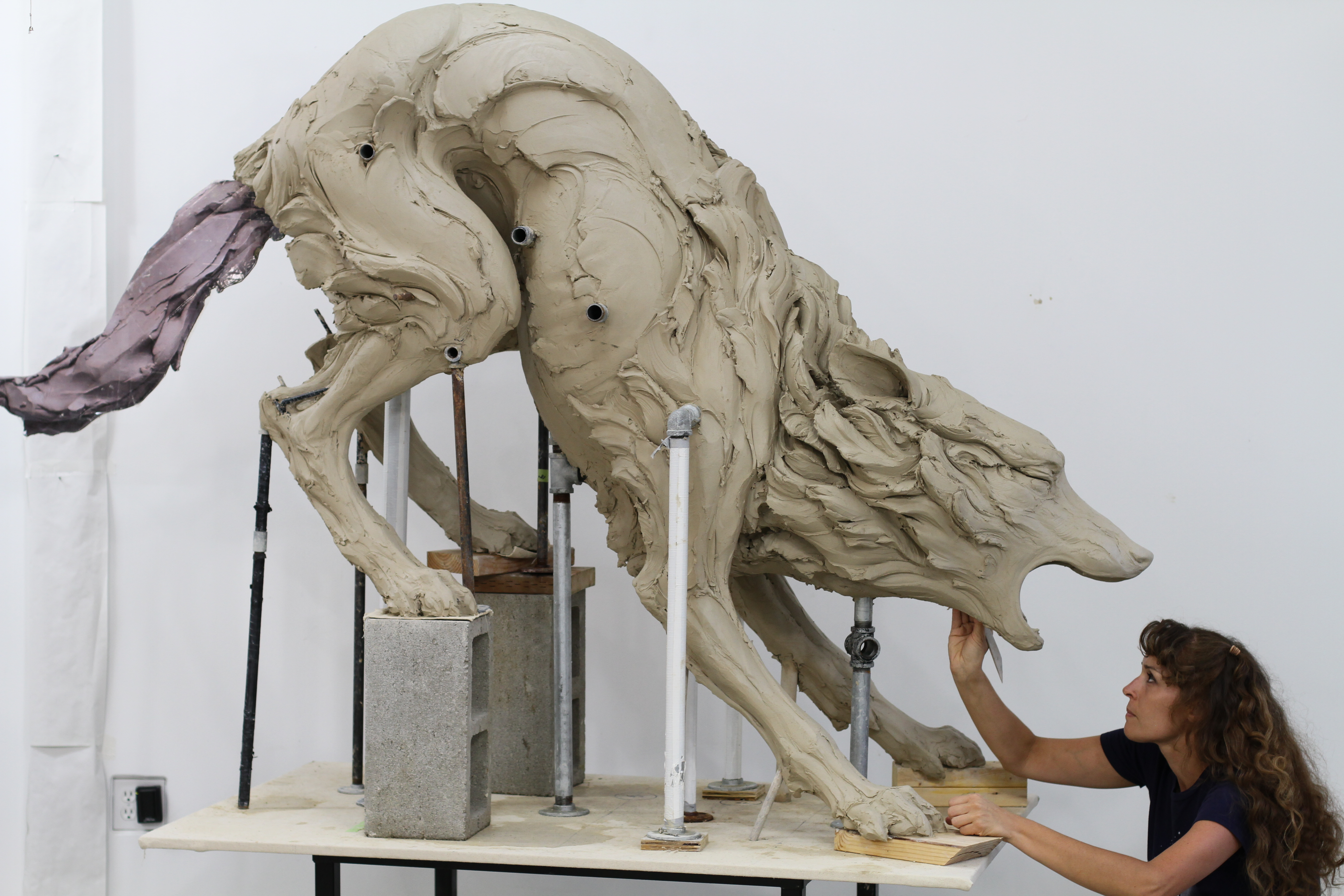 Beth working on "In Bocca al Lupo"